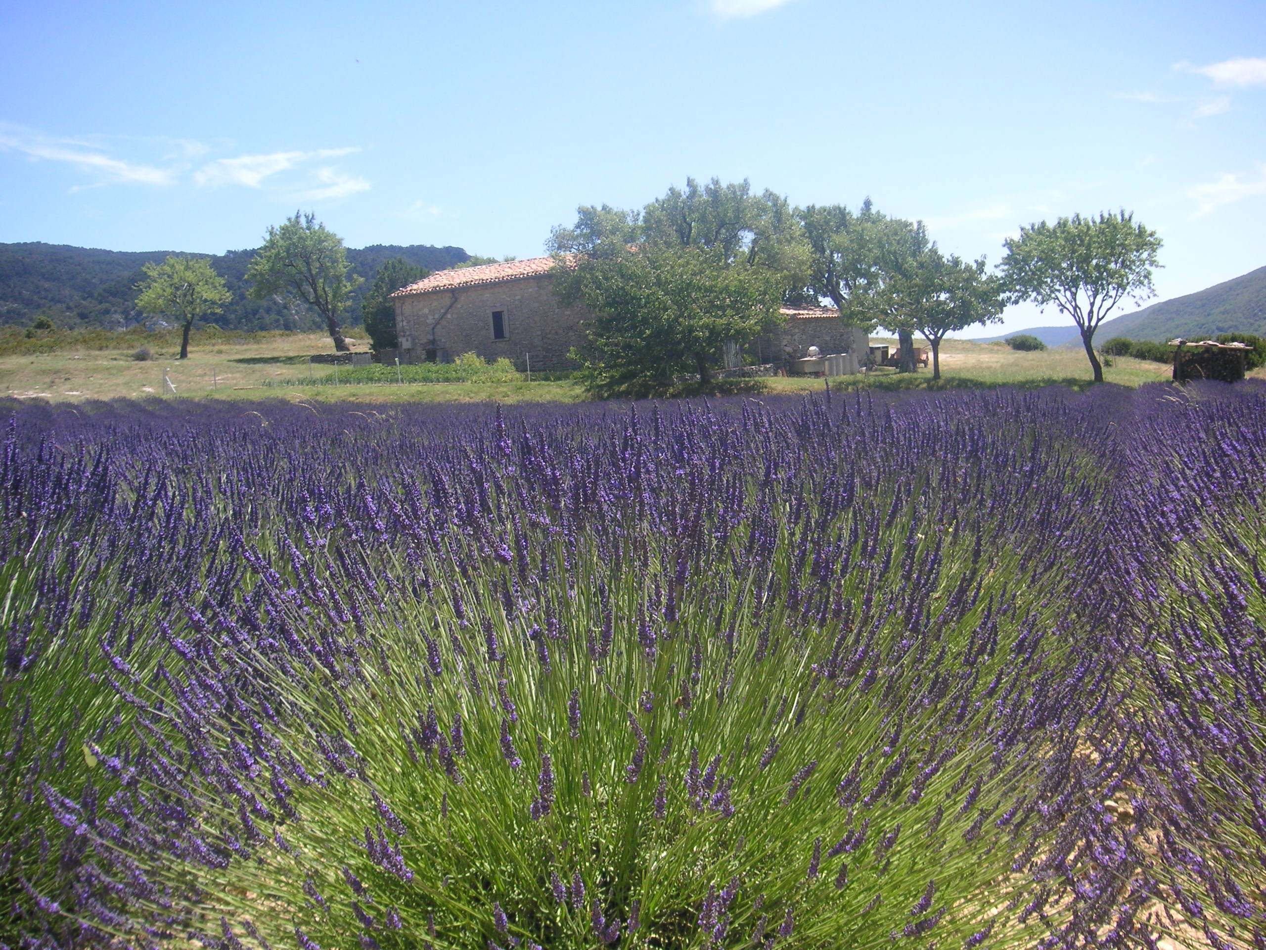 Lavender Field in the Provence, France